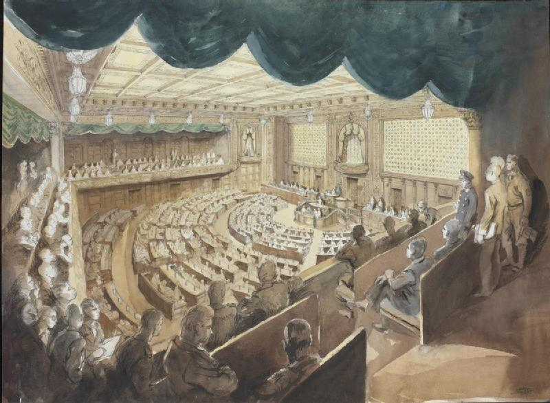 The Imperial Japanese Diet, Tokyo - the House of Representatives image: a view looking down at someone giving a speech in front of a full main floor of The Imperial Japanese Diet, viewed from a balcony above. In the foreground there are several Allied soldiers watching the proceedings from the back of the balcony.